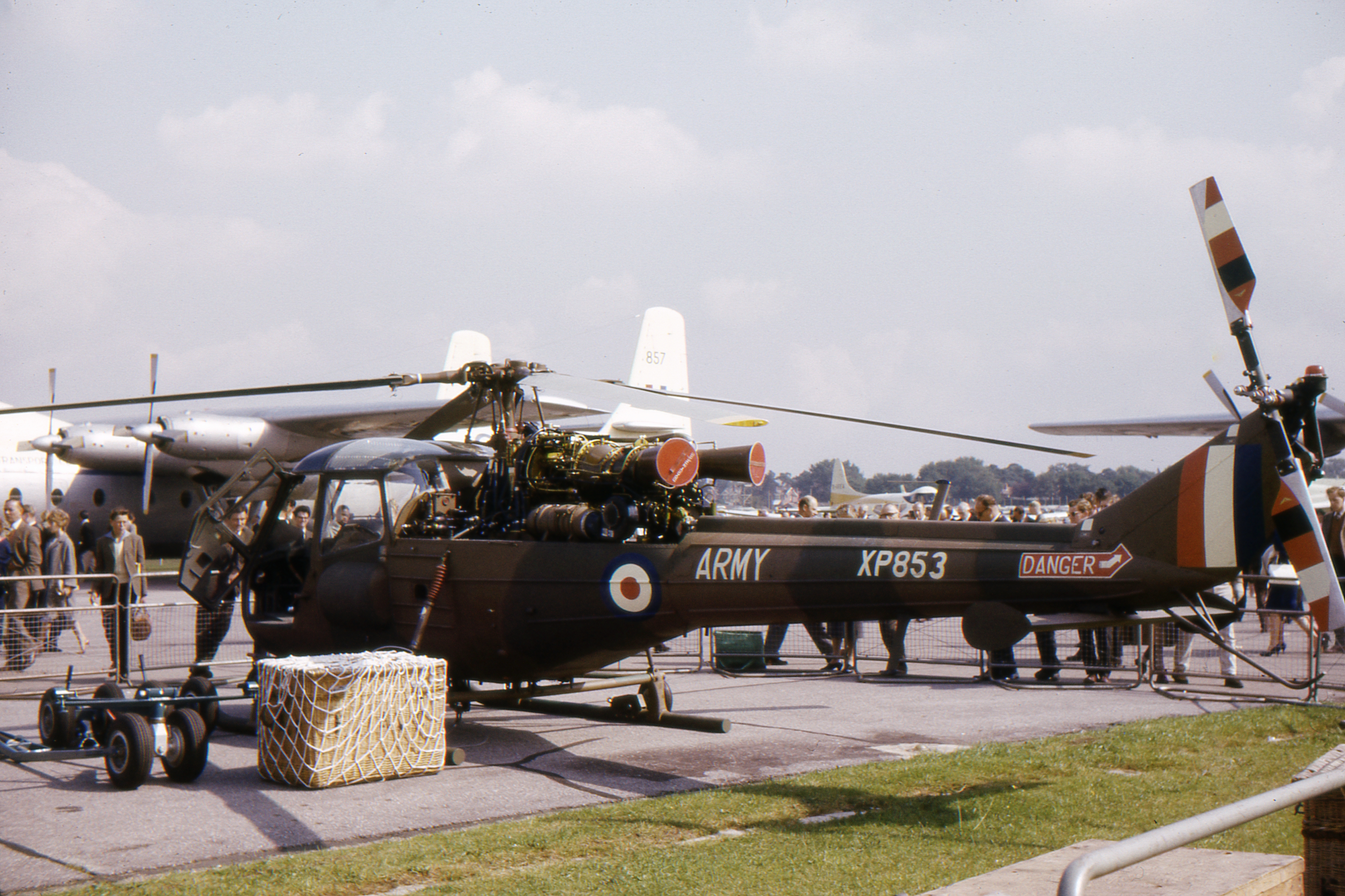 Westland Scout AH1 XP853 at SBAC show Farnborough 8 September 1962.